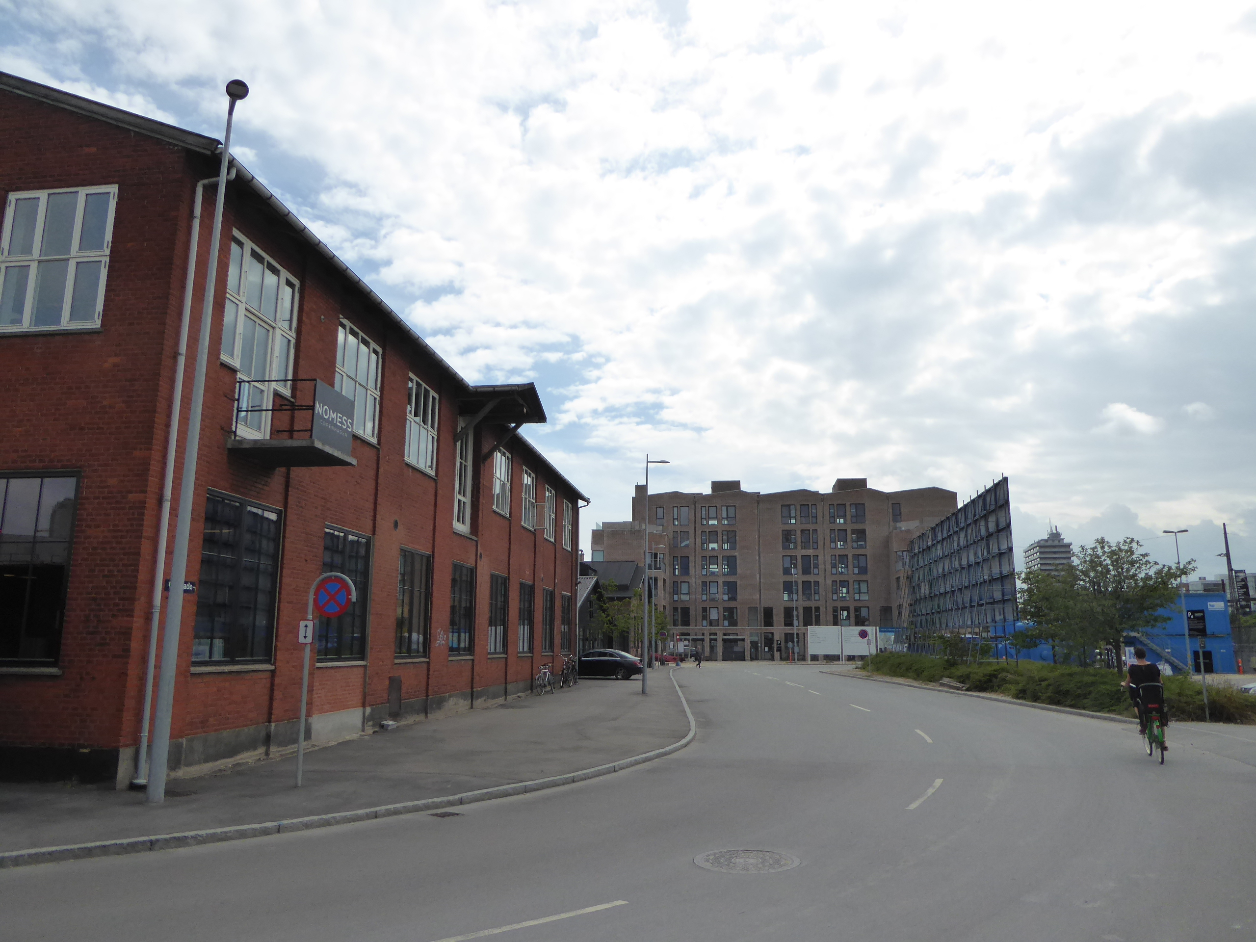 The street Corkgade in Nordhavn in Copenhagen.